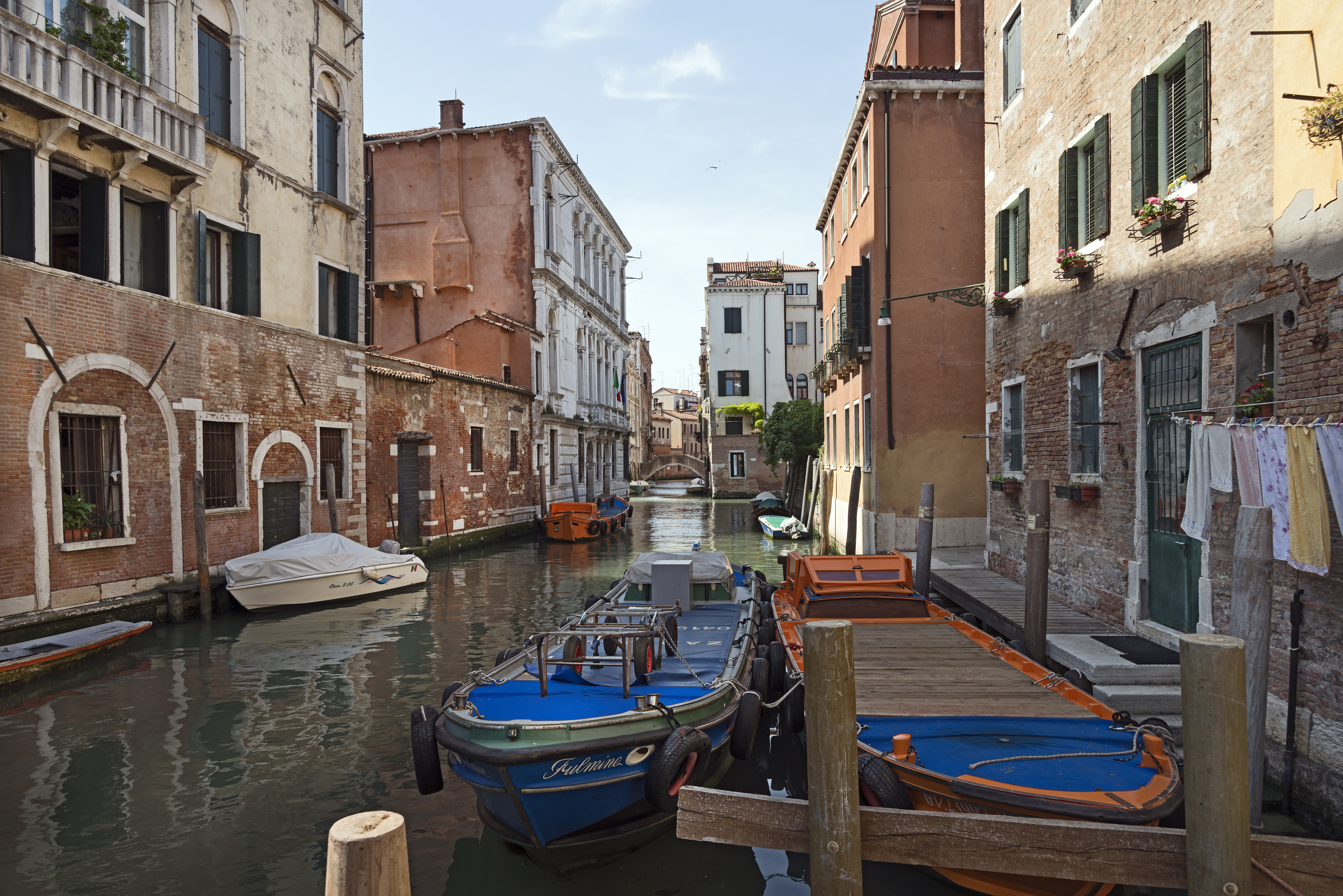 Rio di Sant'Agostin view from Ponte Sant'Agostin, in Venice